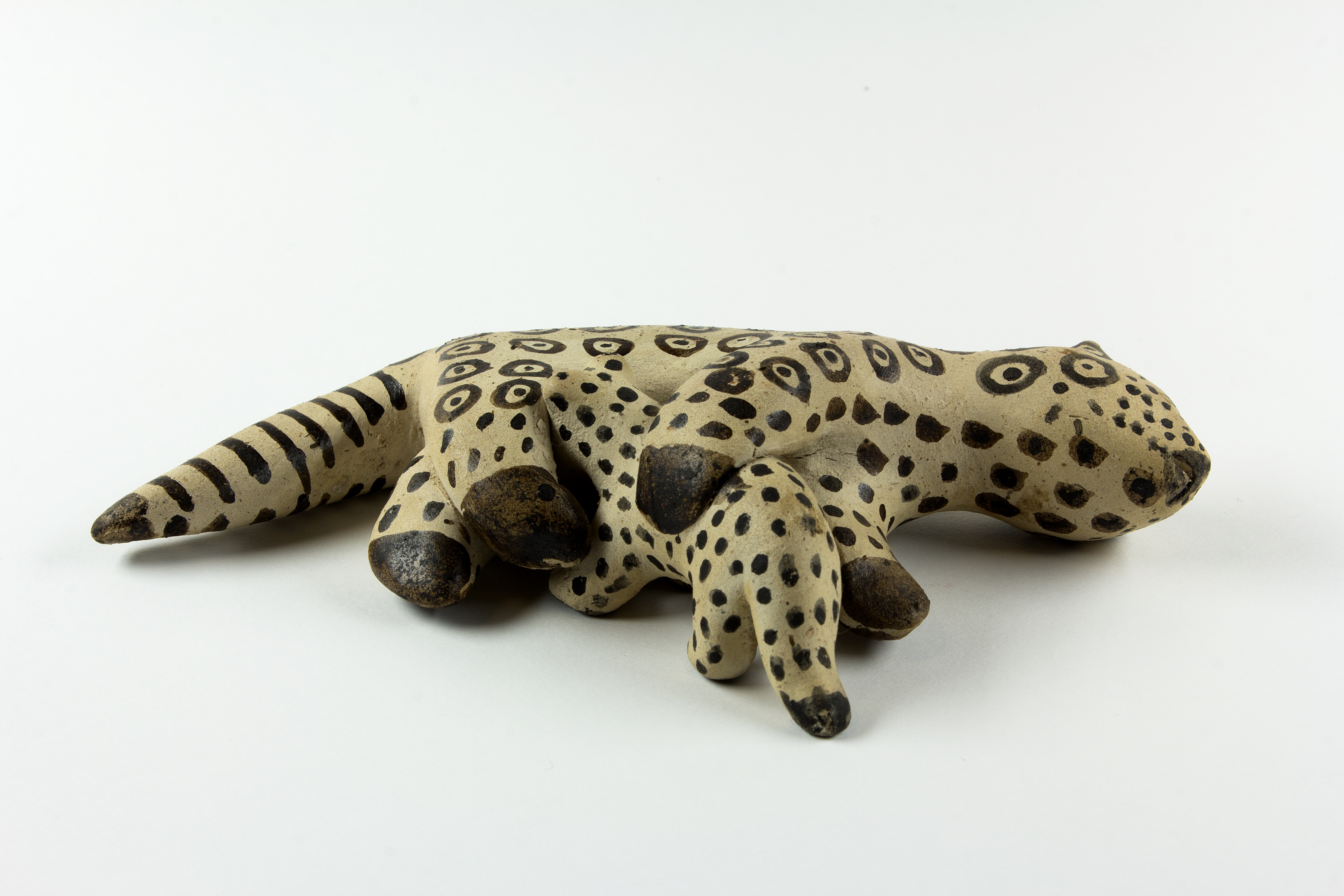 jaguar breastfeeding her young size : 2,5 x 8,1 x 14,0 cm material : clay technique : ceramic